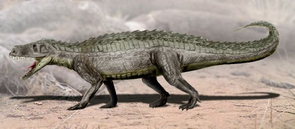 Prestosuchus, pencil drawing, based on the skeleton cast on display at the American Museum of Natural History Author:NobuTamura palaeocritti